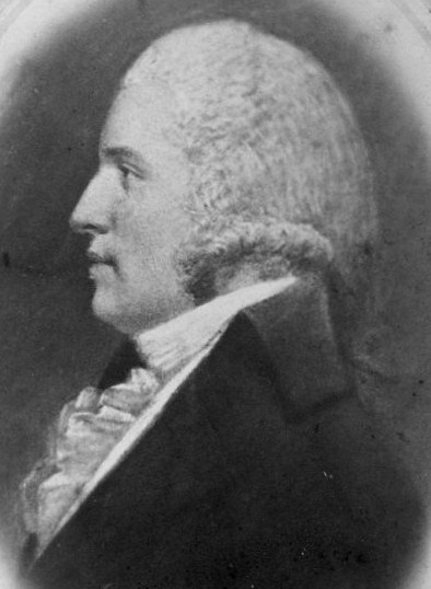 Thomas Wilson, US Representative from Virginia